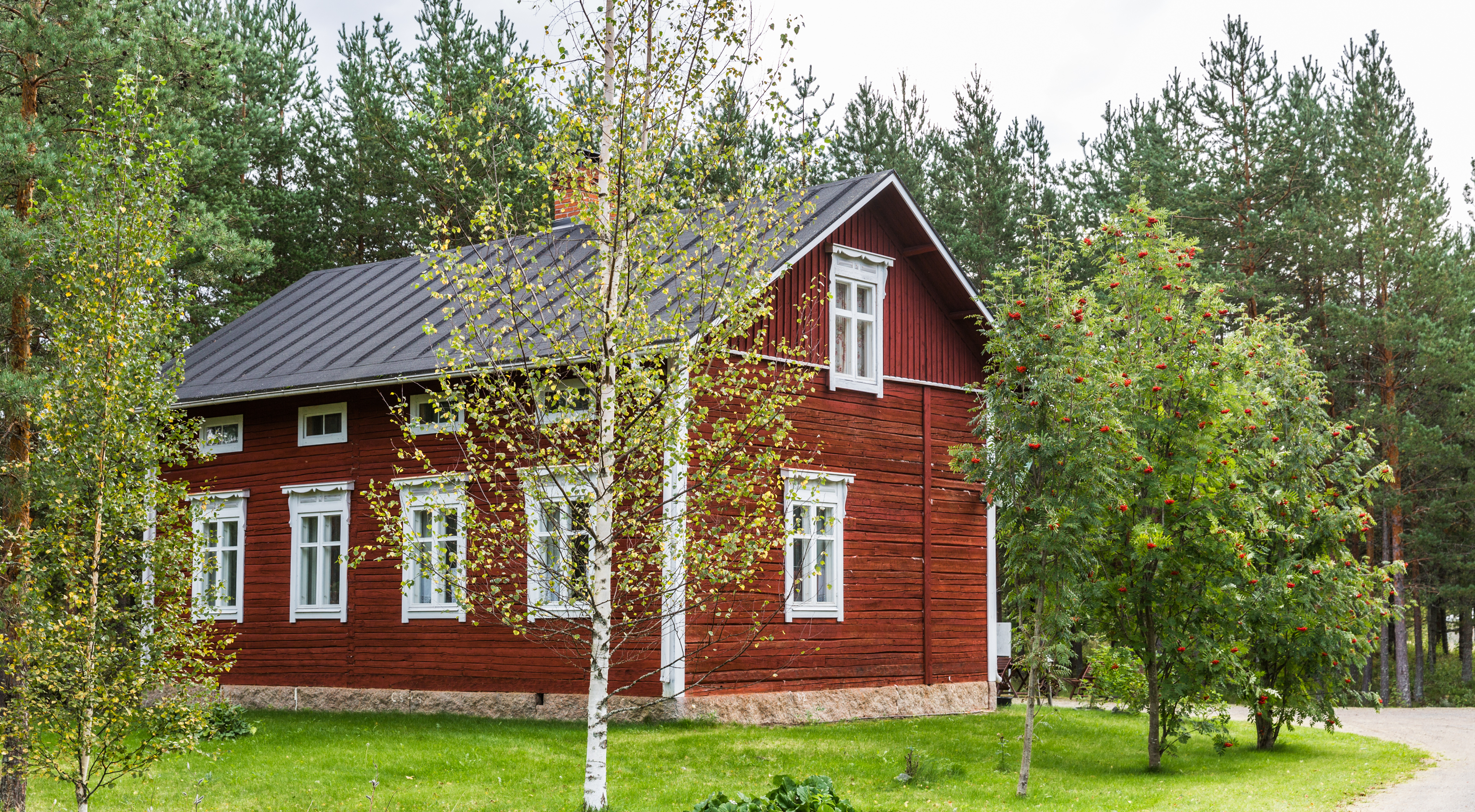 Hakala House